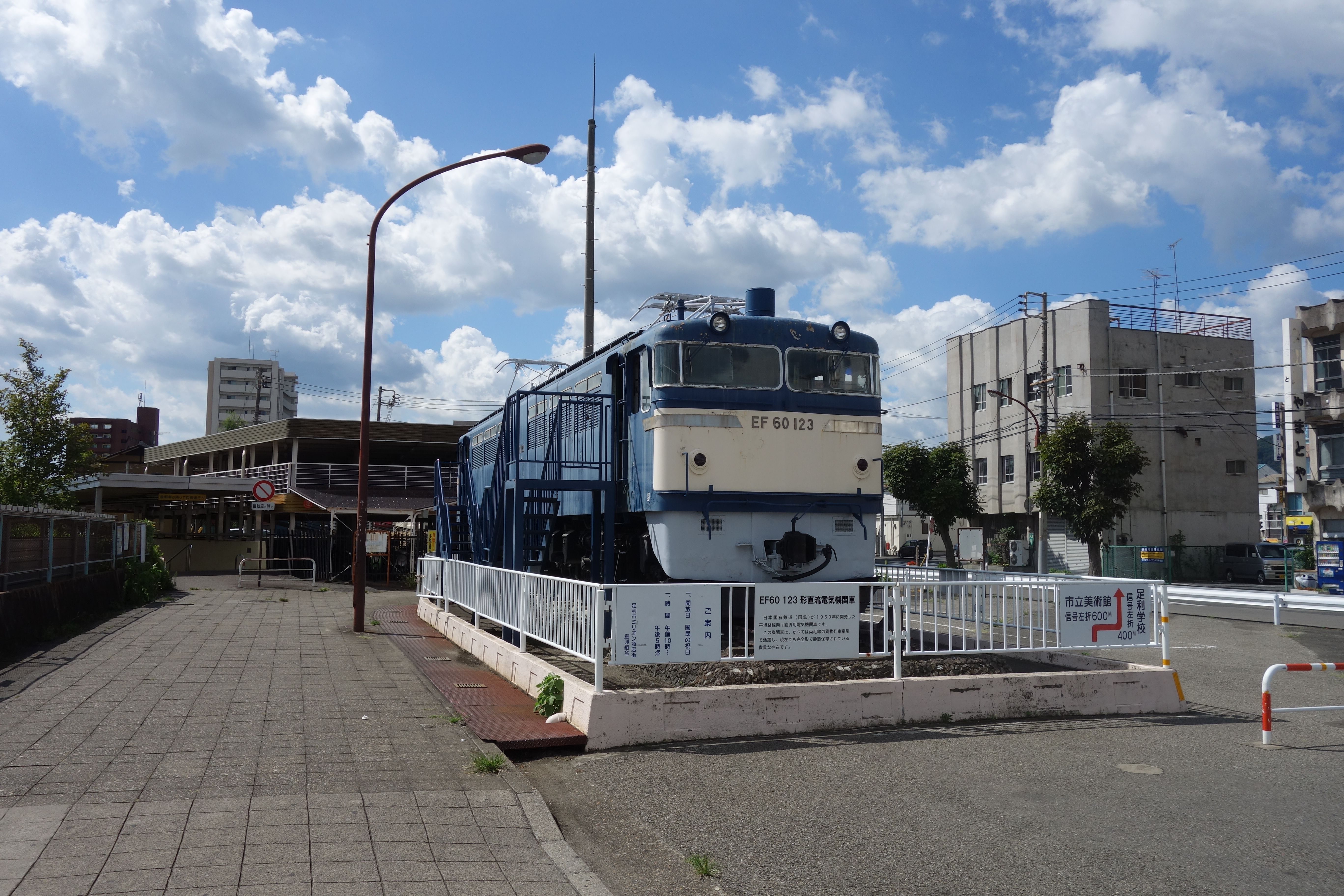 Preserved Class EF60 electric locomotive EF60 123 in front of Ashikaga Station